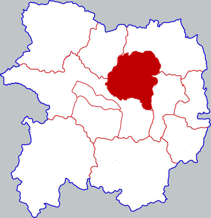 Location of Fengxiang county in Baoji city, China